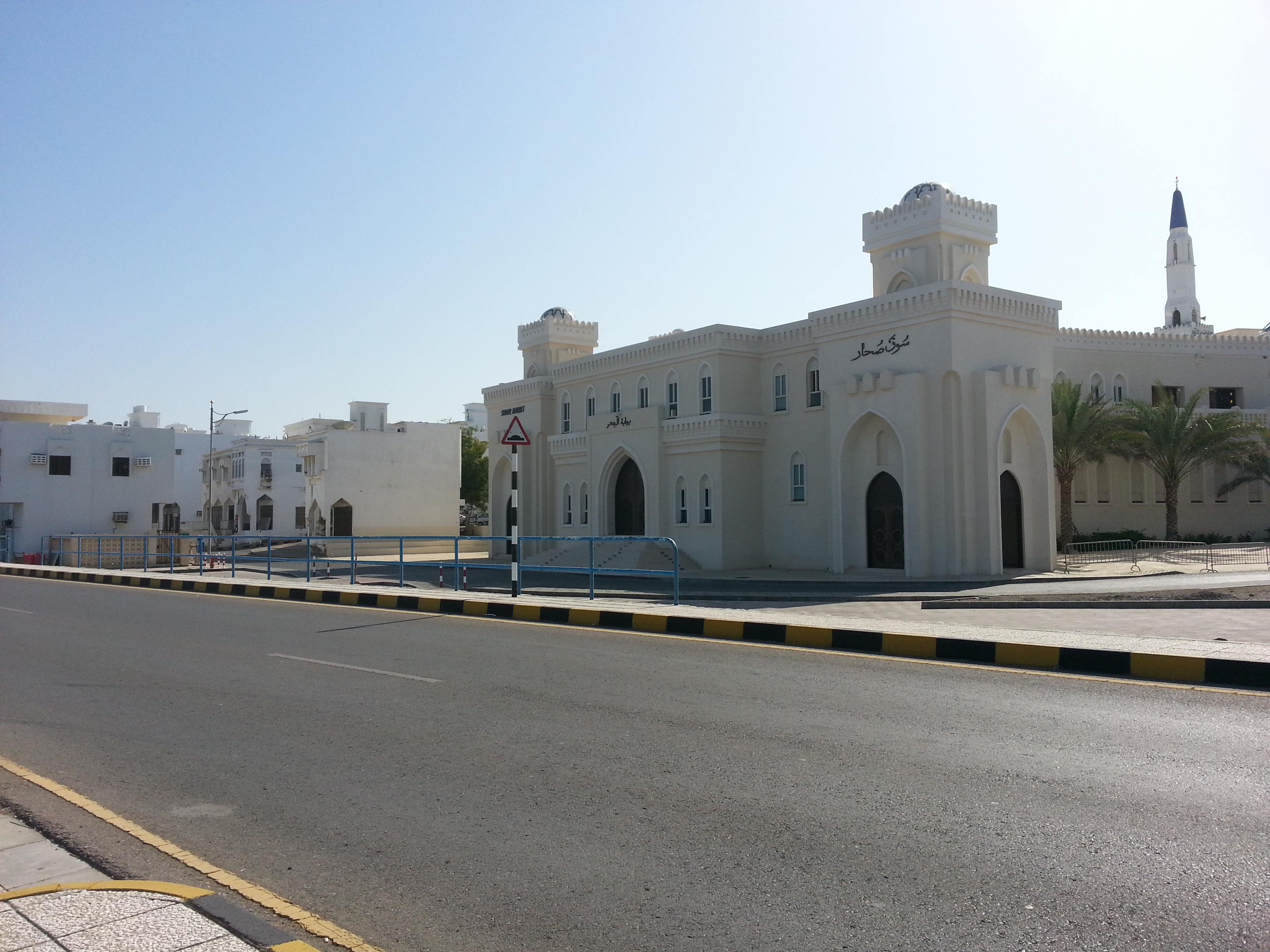 محاذي للسوق